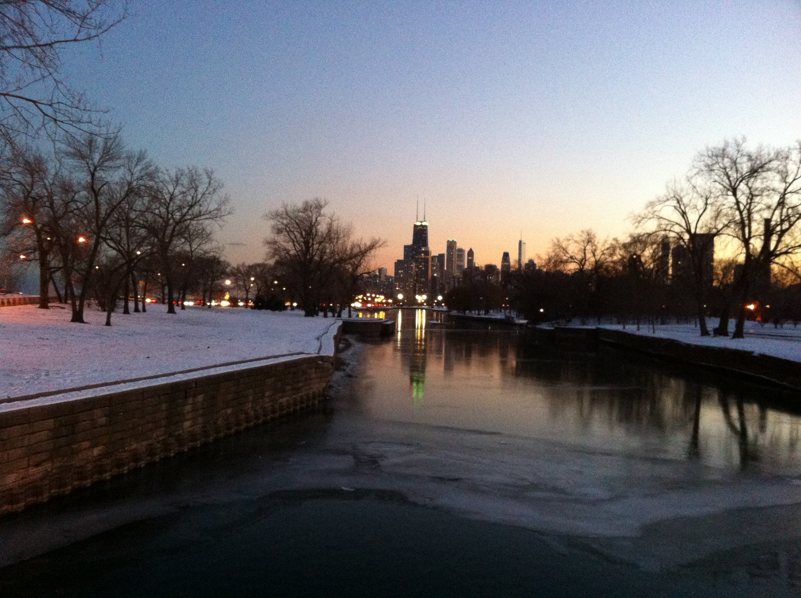 Downtown from Lincoln Park at dusk